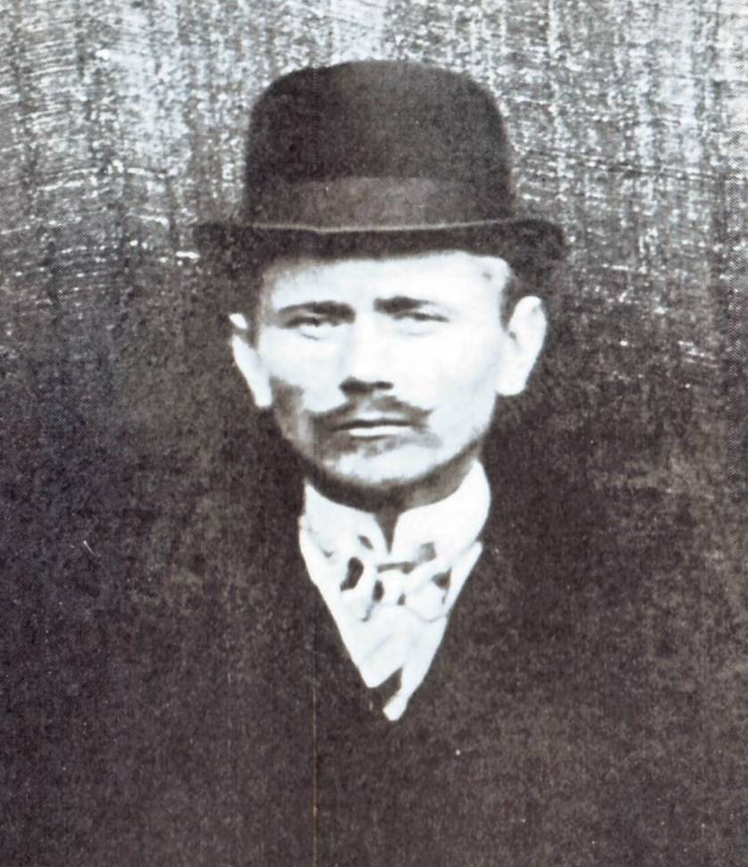 Edward Leedskalnin in Latvia, circa 1910. Collection of Larvia's historical images by Māris Goldmanis, Researcher at University of Latvia.